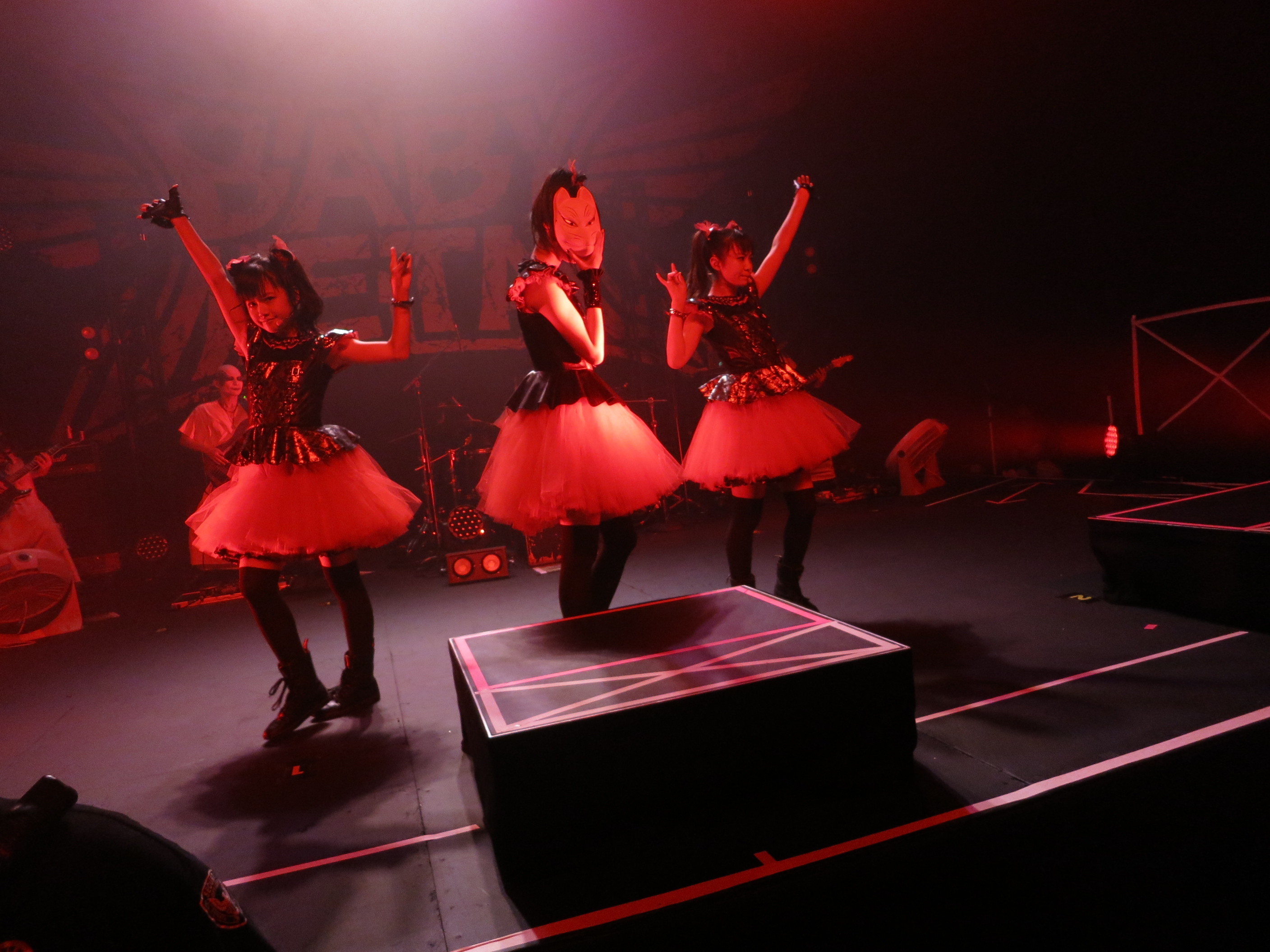 Babymetal performs live at The Fonda Theatre in Los Angeles, CA, USA.